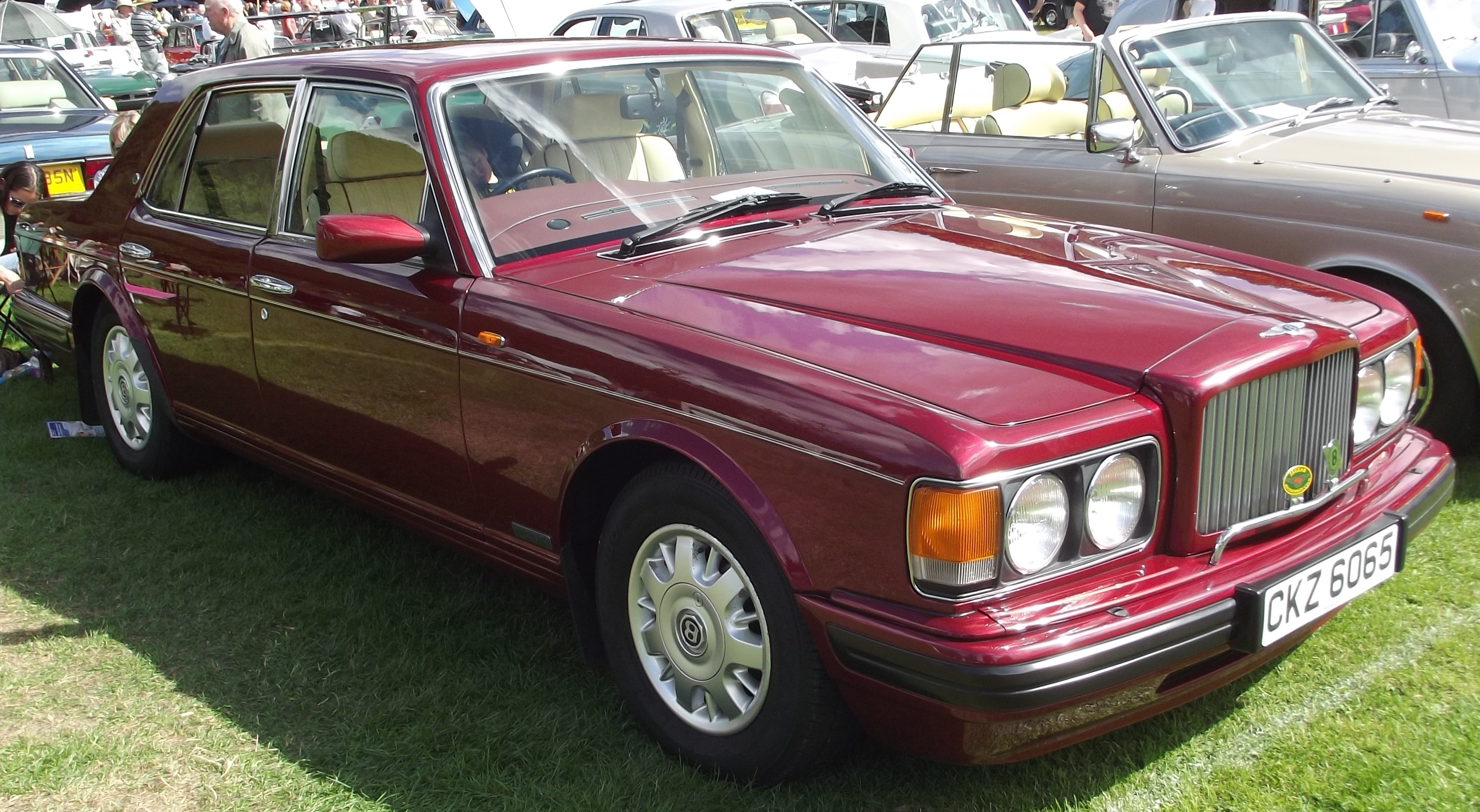 My favourite Bentley of the modern era